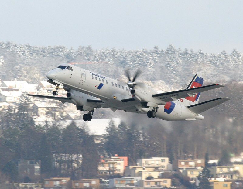 Saab 2000 of Crossair at Zürich-Kloten Airport